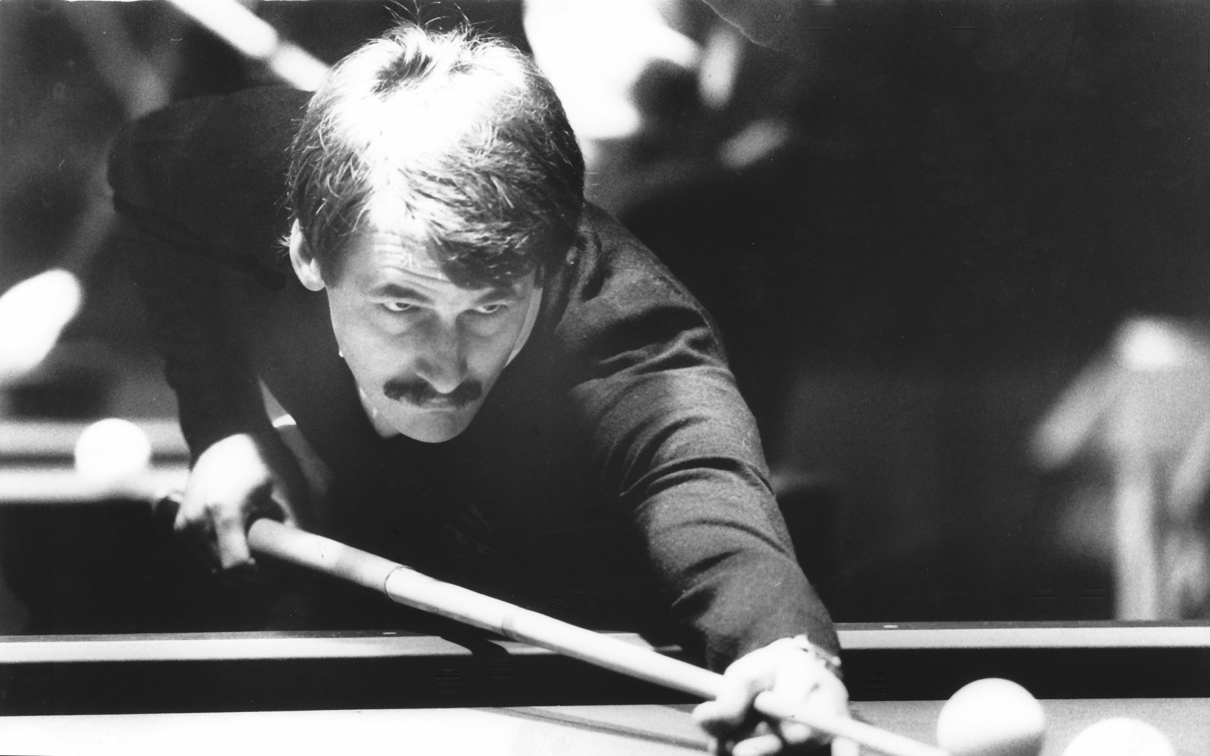 1986 One-cushion european championship in Dülmen, Germany. Wolfgang Zenkner from Germany